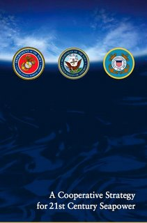 This is the cover page of the 16-page booklet called "A Cooperative Strategy for 21st Century Seapower"